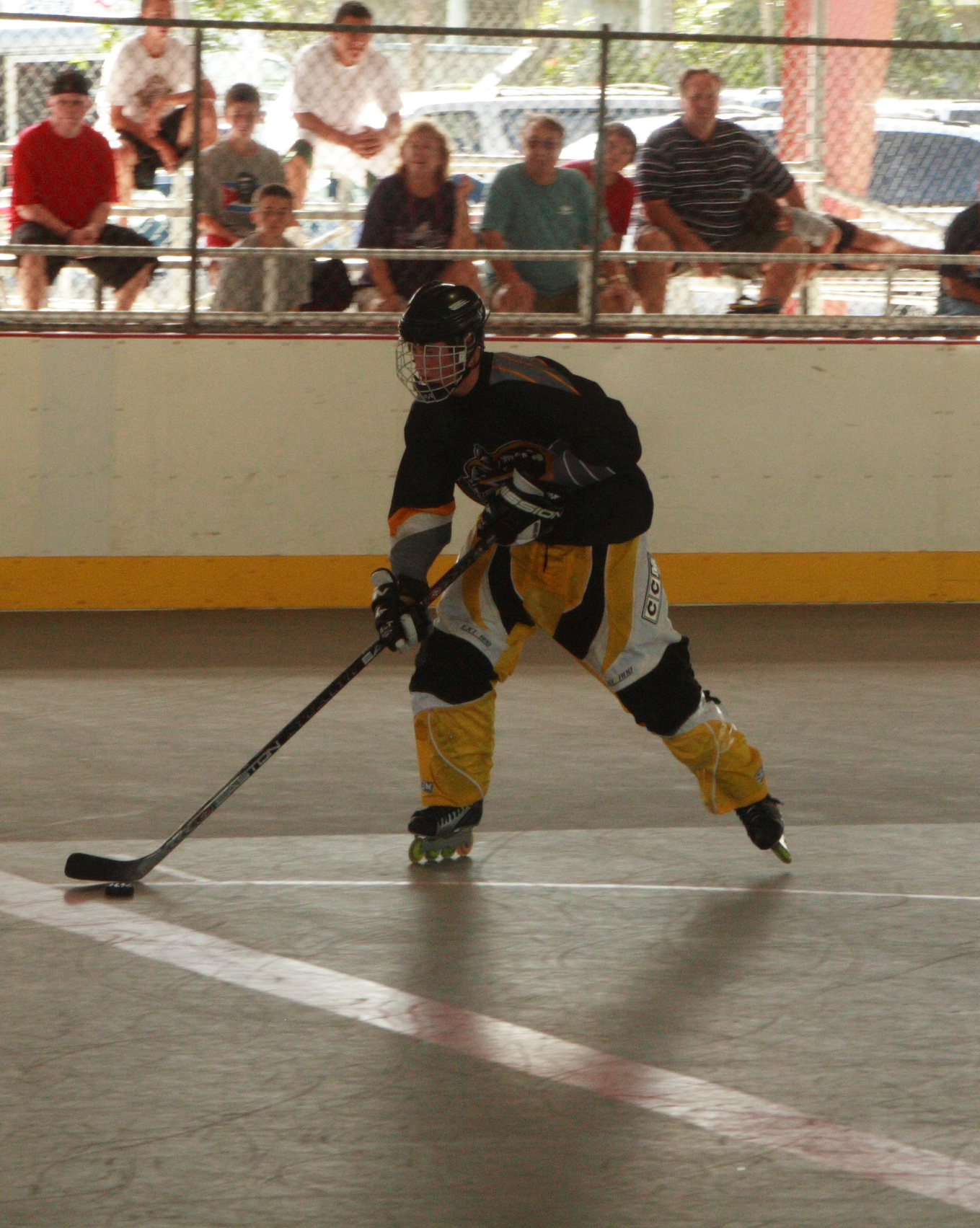 army inline player with puck